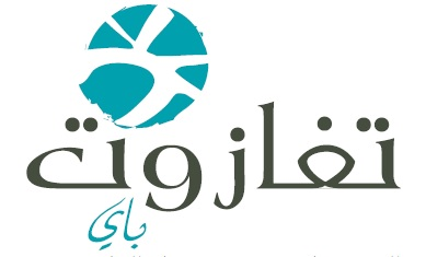 Logo Taghazout Bay